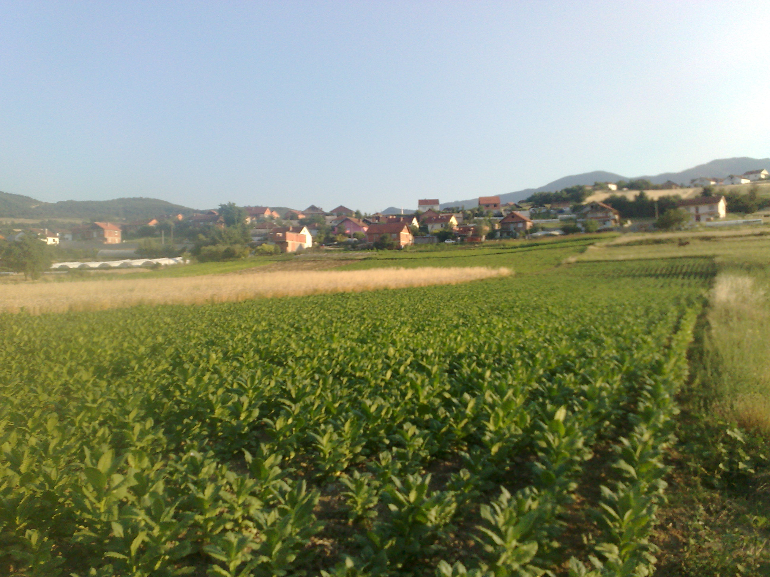 Tobacco field in Morani, Macedonia